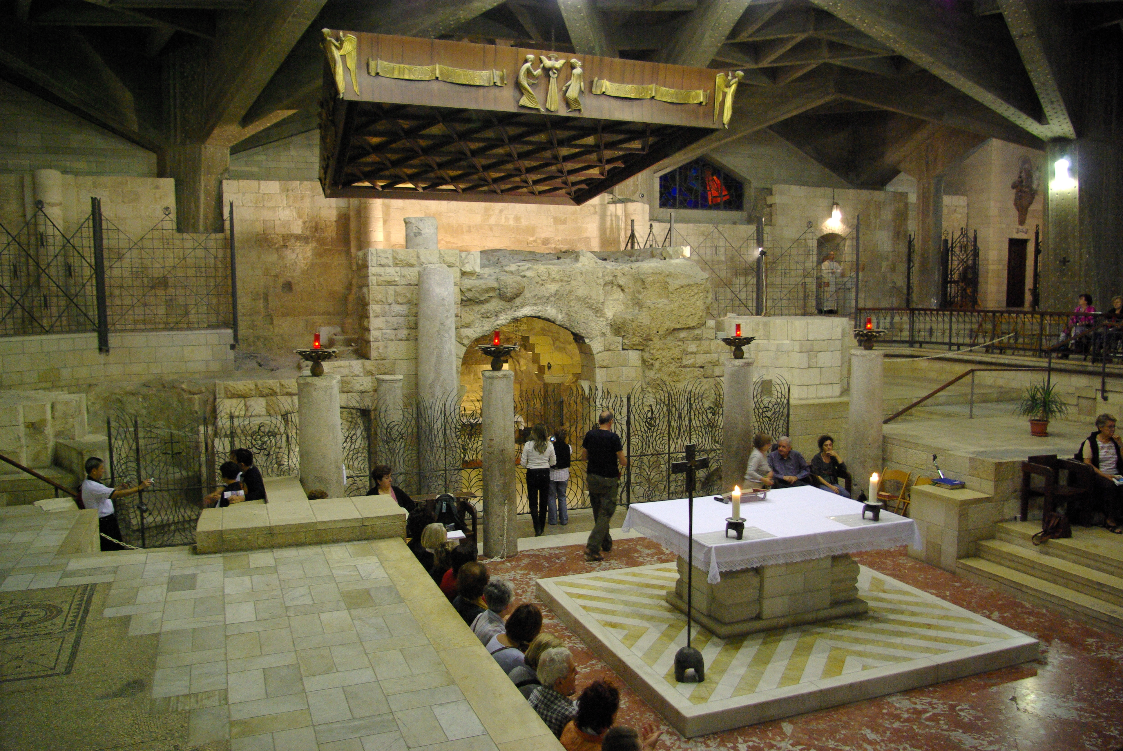 Church of the Annunciation, Nazareth, Israel